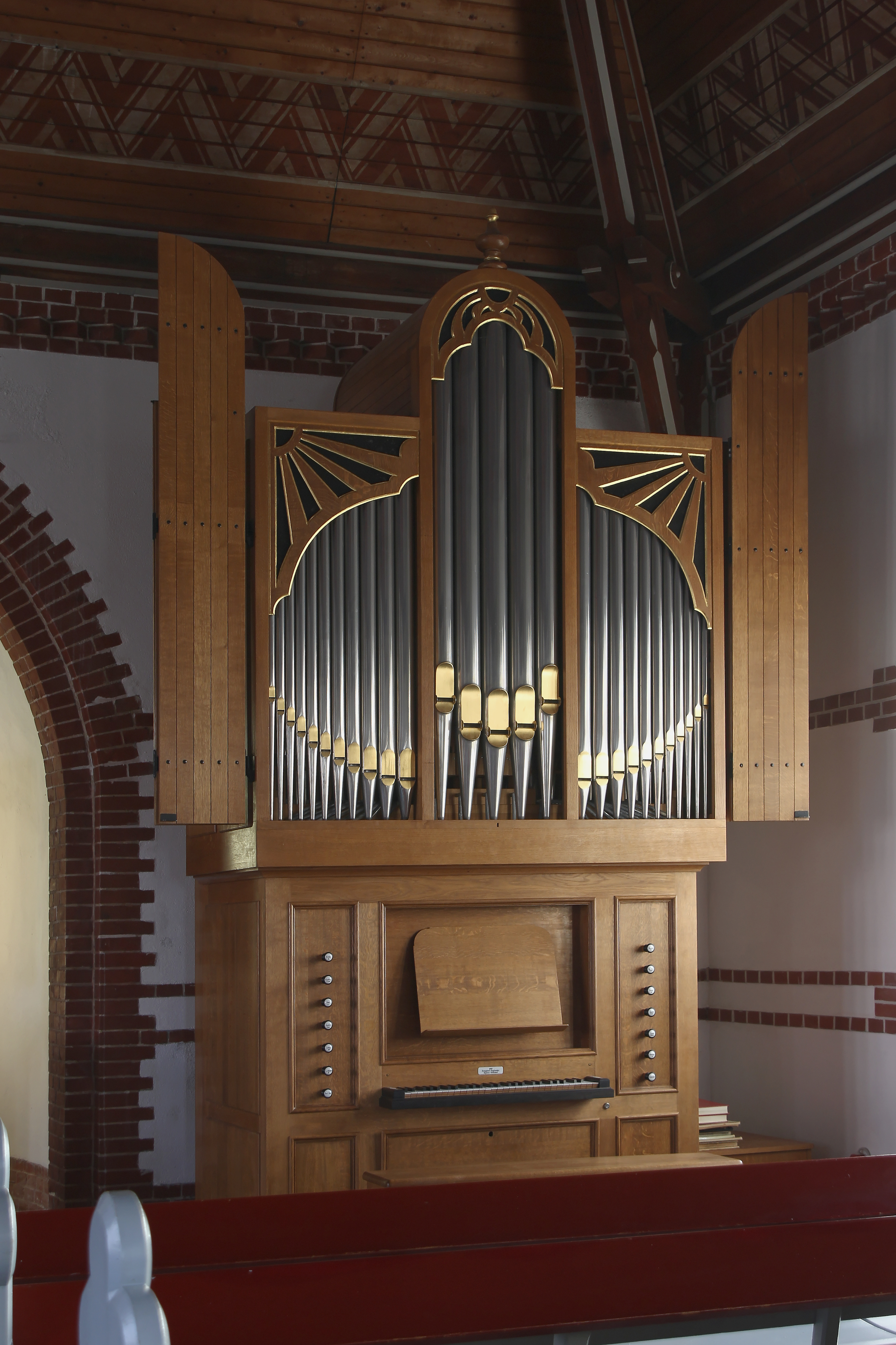 Lutheran Chapel in Wittdün on the frisian island of Amrum